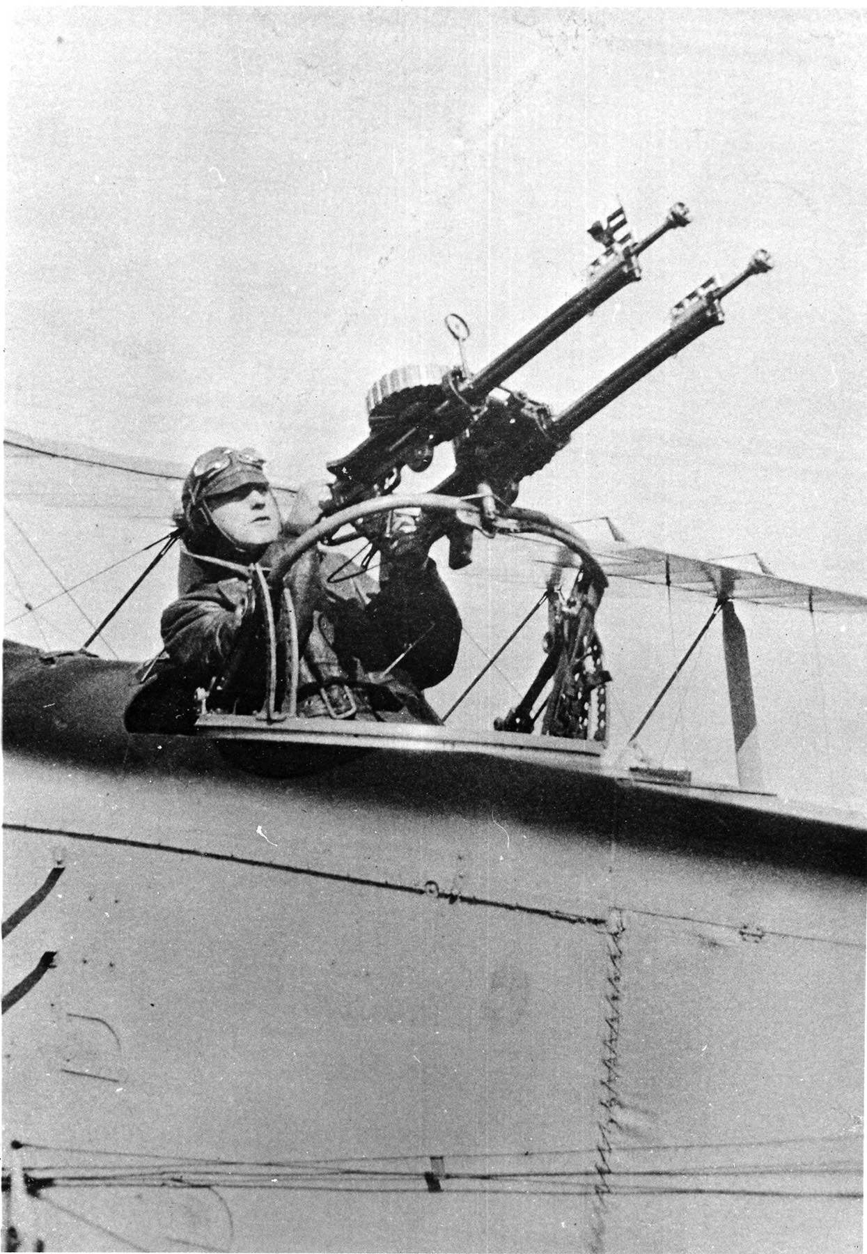 Second Lt. Erwin R. Bleckley, a U.S. Army Air Service observer (U.S. Air Force photo).